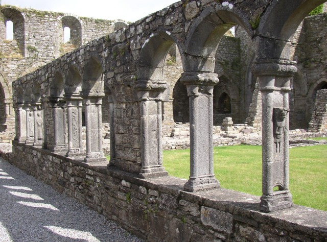 The carved cloister arches, Jerpoint Abbey, Thomastown, Co. Kilkenny. Some of the carved piers of the cloister arches have survived.